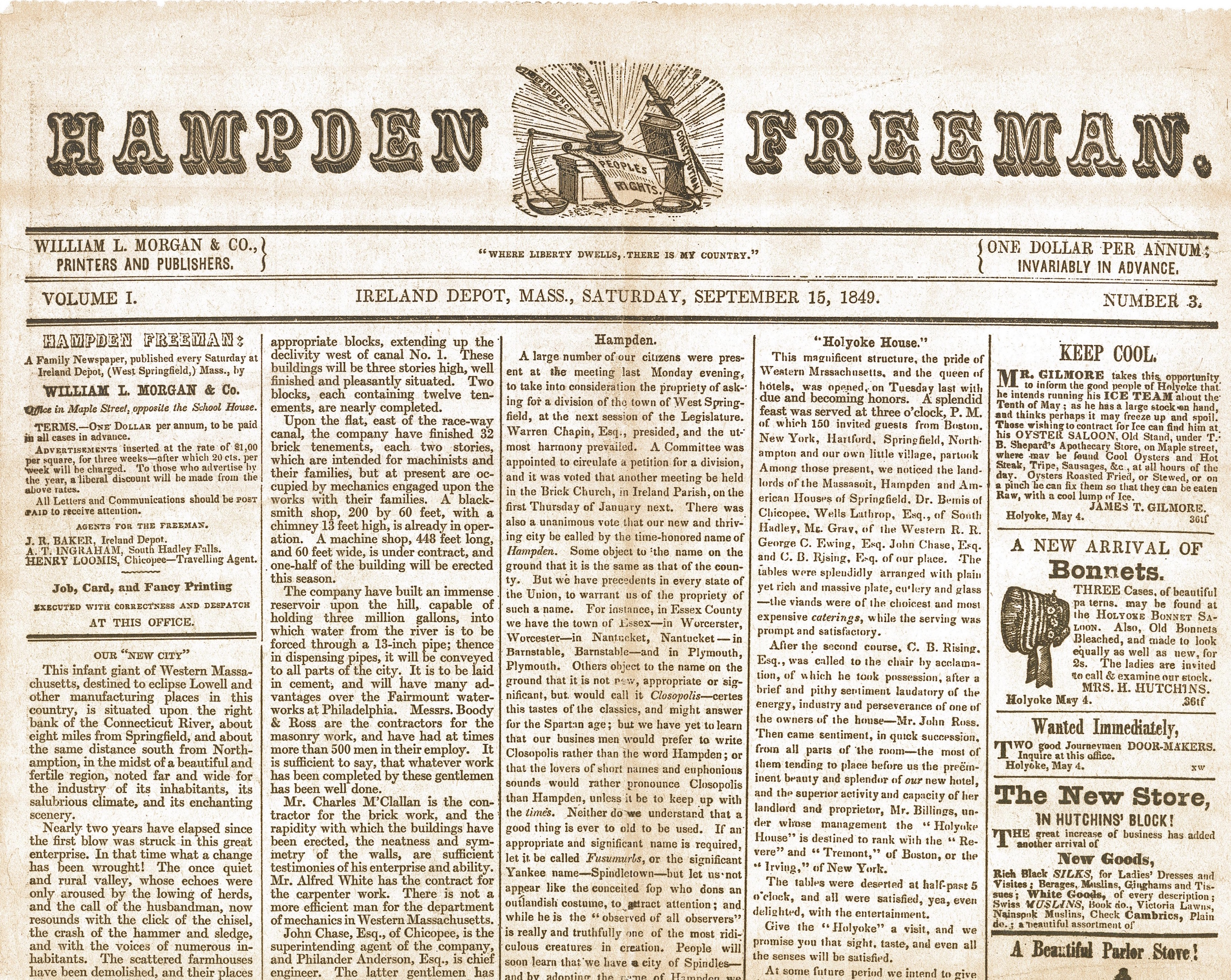 The third issue of the Hampden Freeman, republished by the Holyoke Transcript-Telegram in 1960 with a compilation of articles from 1849-1851